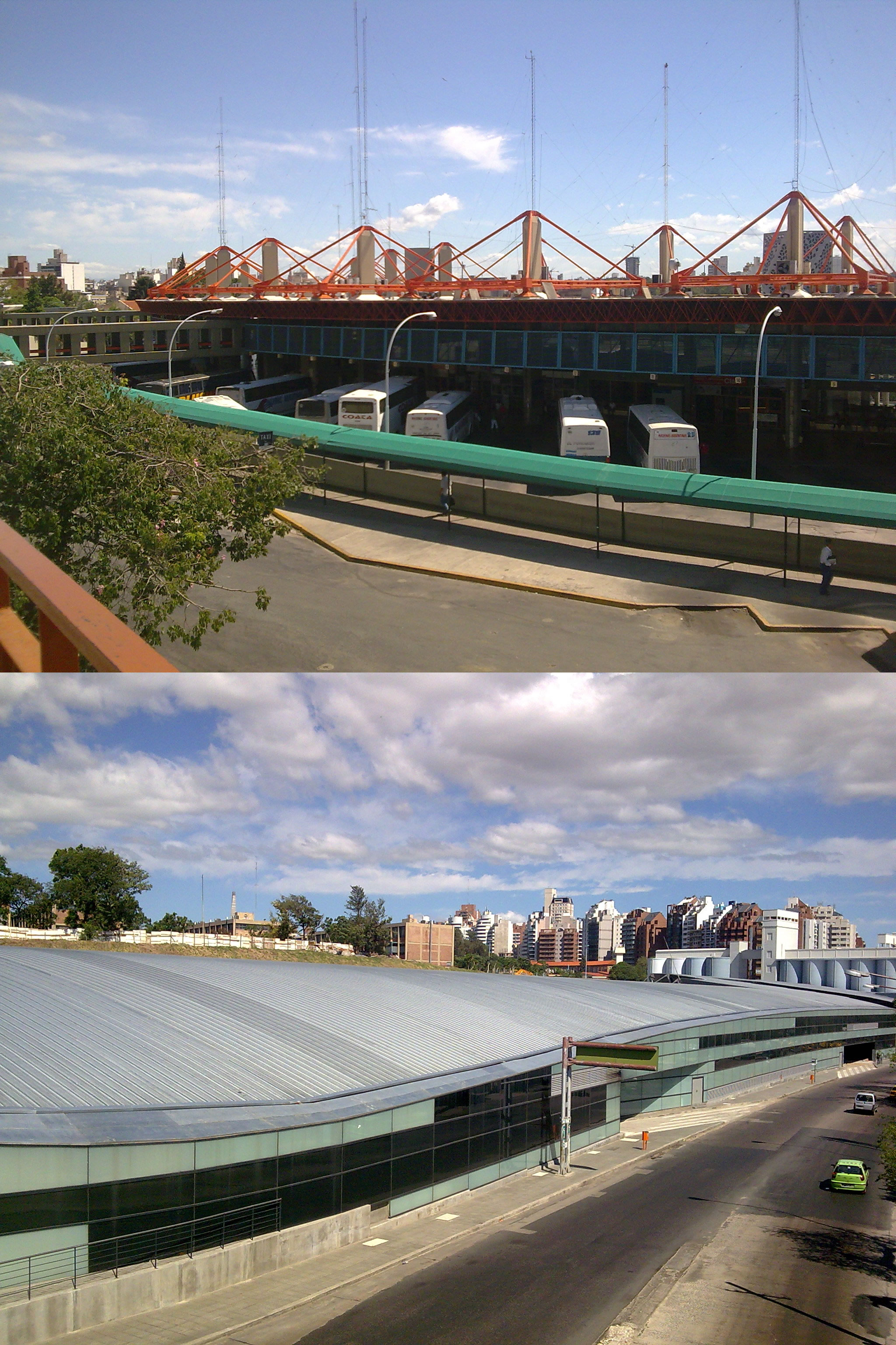 Bus stations numbers 1 and 2. Cordoba City, Argentina.